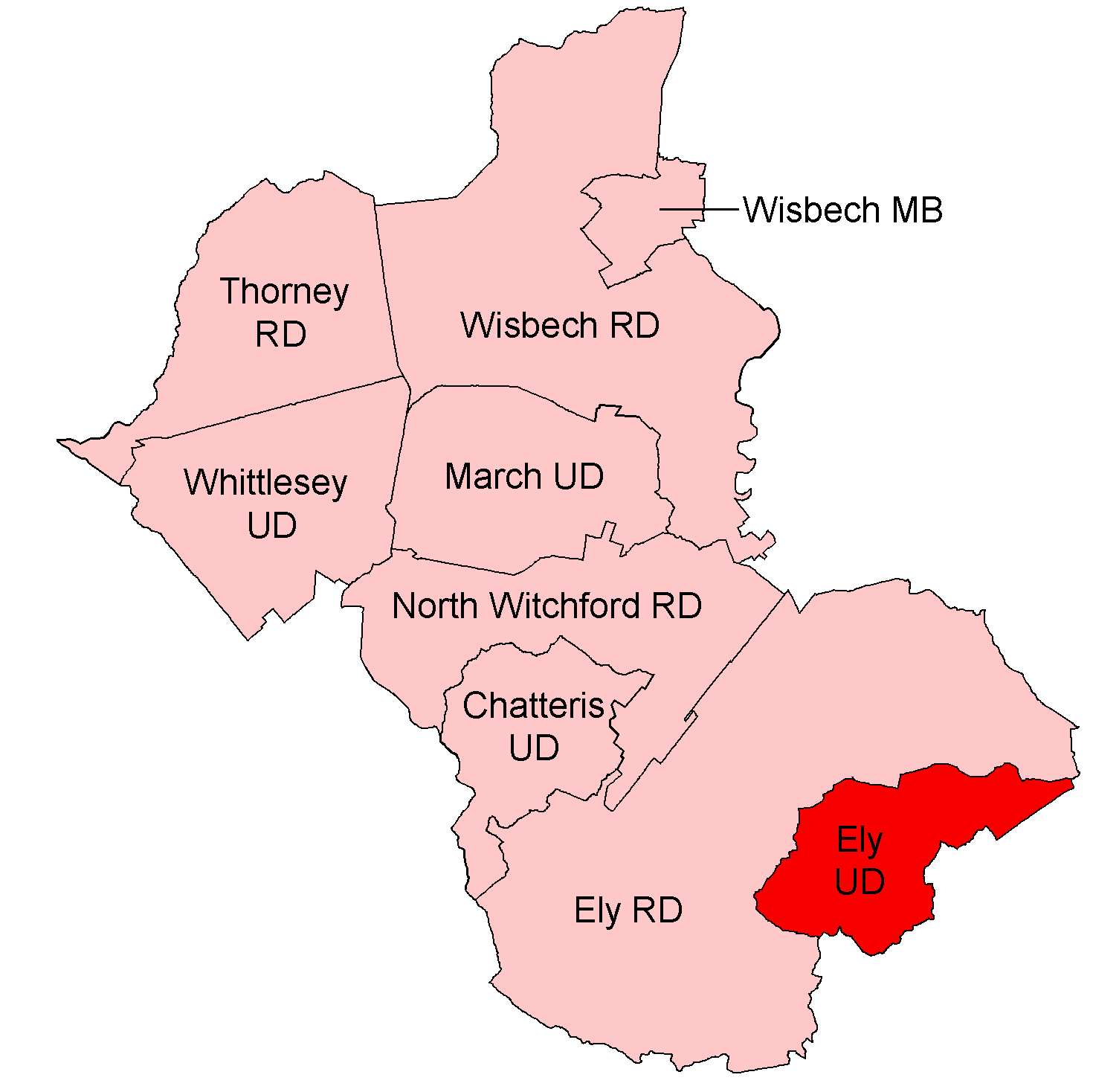 Ely Urban District, shown within the administrative county of the Isle of Ely. All boundaries shown are correct from 1935 to 1960. Ely UD itself was unchanged between 1933 and abolition in 1974.